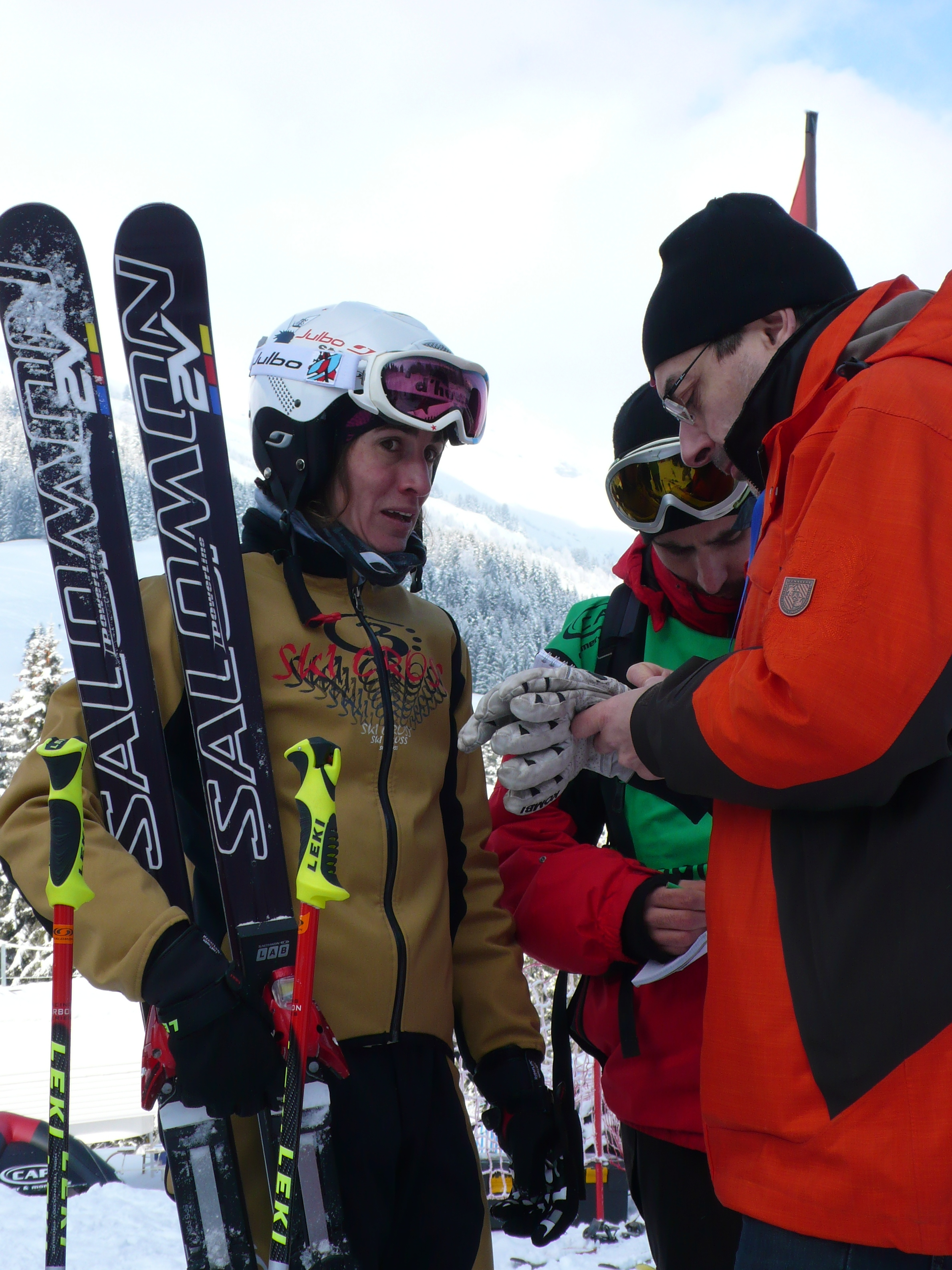 Ski Cross World Cup at Les Contamines-Montjoie : Ophélie David 4th